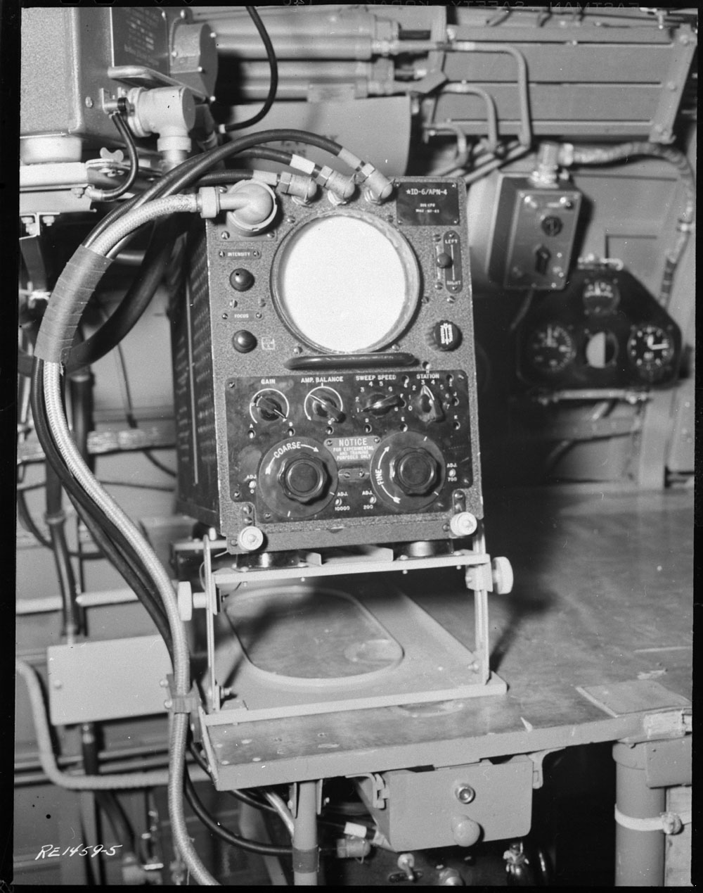 This image shows an AN/APN-4 LORAN display unit mounted in a Consolidated Canso (PBY) aircraft. LORAN systems worked by comparing the time-of-arrival of signals sent from two widely-separated radio stations on an oscilloscope display like the APN-4 shown here. The operator would use the controls at the bottom to align the signals on the screen, and then measure the time difference between them. These delays were printed on maps, which were then used to determine the location of the aircraft.